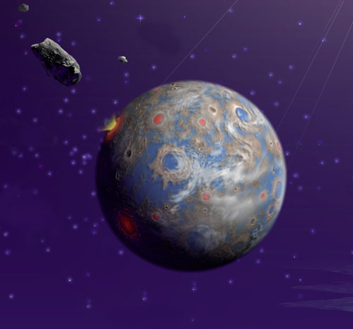 An artist's depiction of an extrasolar, Earthlike planet..